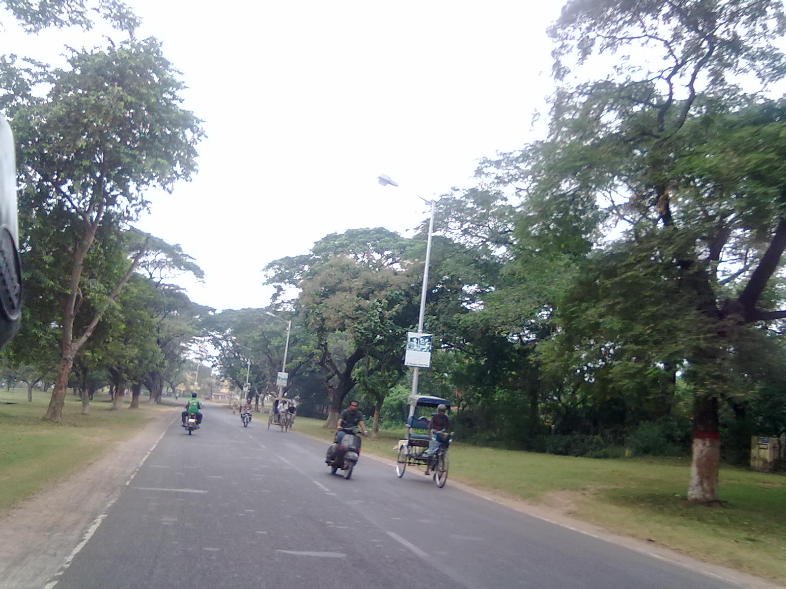 A View from Kanishka Road, A-Zone, Durgapur, WB, India, 13.10.11